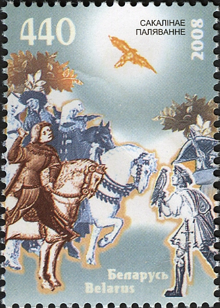 Stamp of Belarus